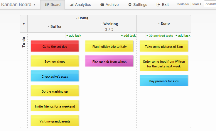 Kanban Tool Board